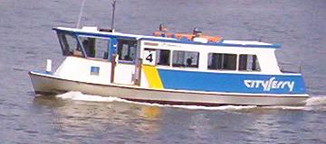 CityFerry on the Brisbane River in Brisbane, Queensland, Australia at CityFerry